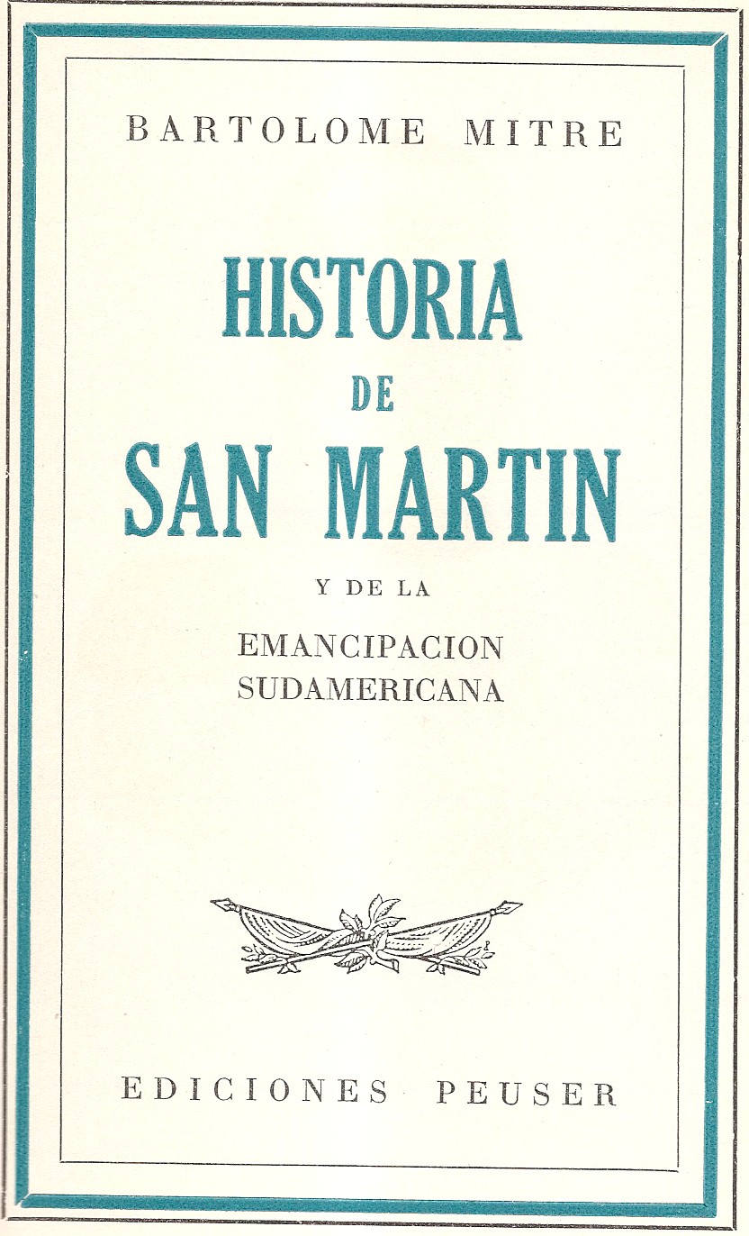 Book cover of Historia de San Martín y de la Emancipación Sudamericana by Bartolomé Mitre (1821-1906).